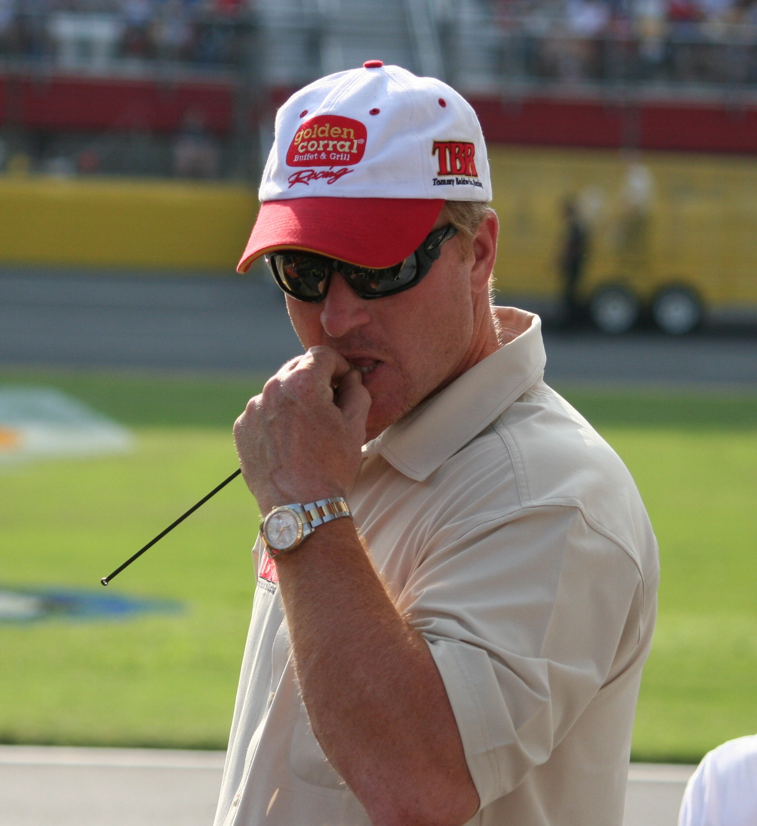 Team owner Tommy Baldwin, Jr. on pit road before the Coca-Cola 600 at Charlotte Motor Speedway, May 29, 2011.